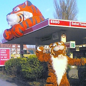 ESSO Station Hamburg Kieler Str Advent Promotion 09-12-06